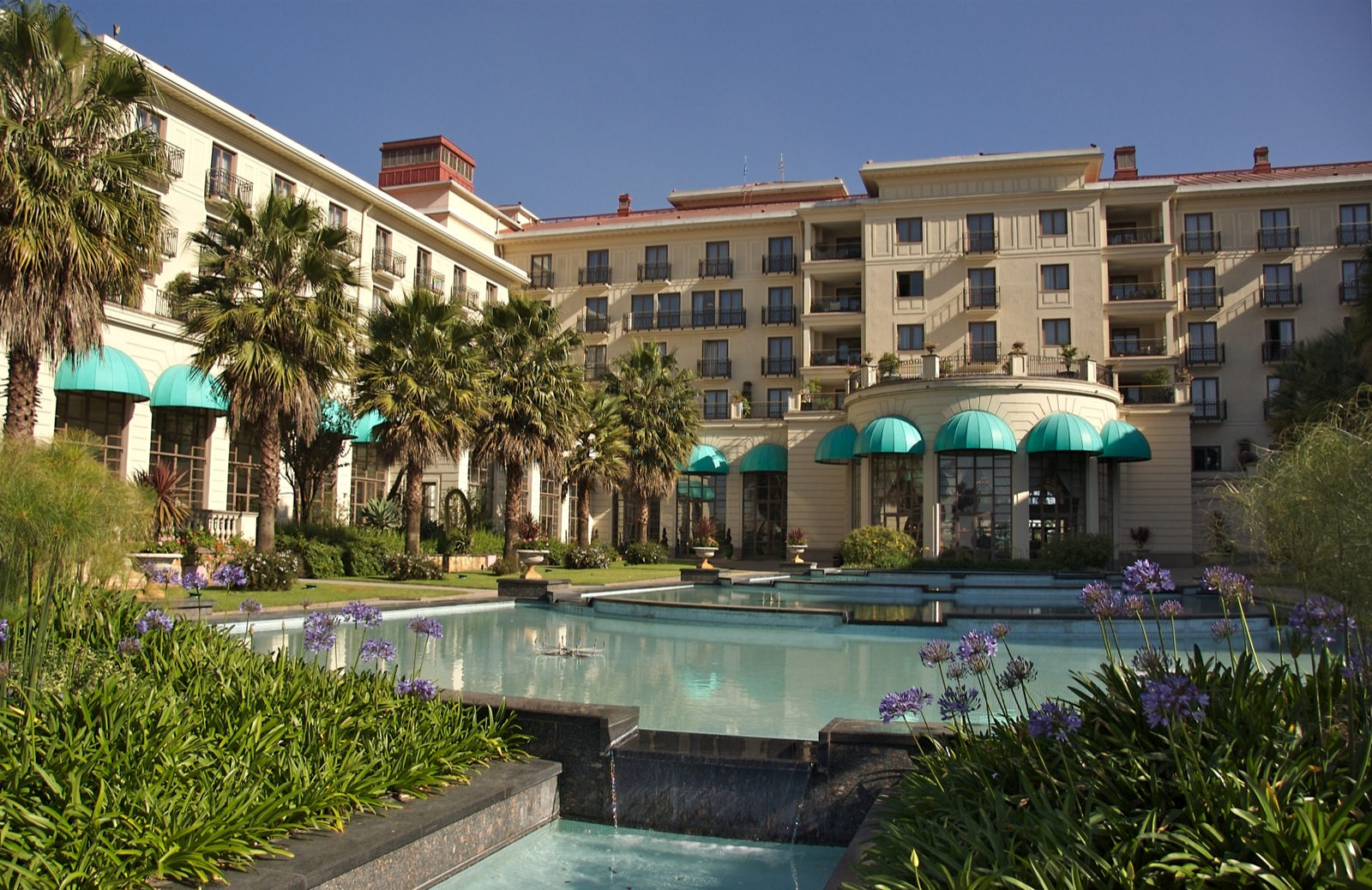 A world-class hotel and an oasis of luxe.